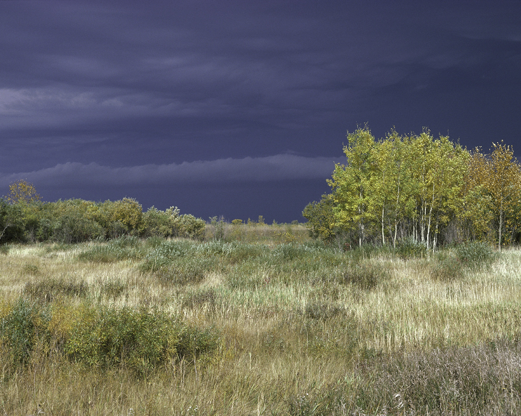 Aspens in a marsh in Agassiz National Wildlife Refuge, Minnesota, United States. The marshes and woodlands of Agassiz National Wildlife Refuge occupy part of the area of a huge prehistoric glacial lake that was larger than the Great Lakes. The abundant wildlife here includes the only gray wolf pack on a refuge outside of Alaska.